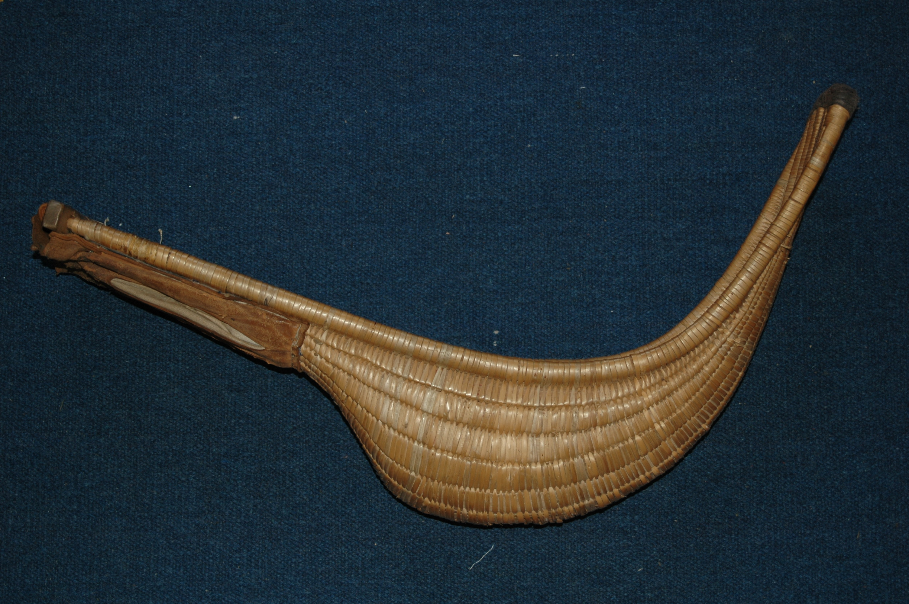 Grand chistera. Photo prise le 08/08/06 par Harrieta171